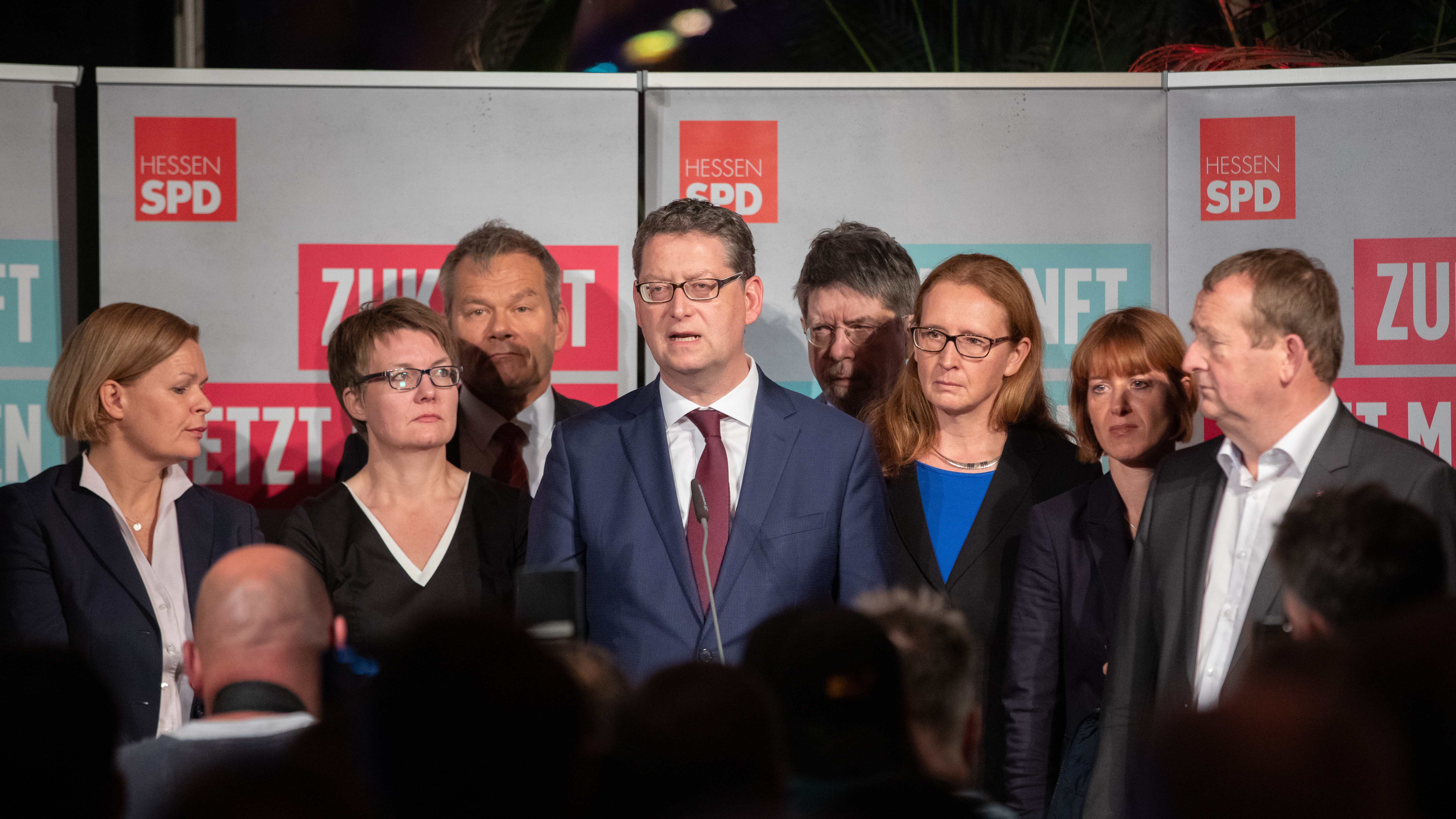 Thorsten Schäfer-Gümbel after the Hesse state election 2018